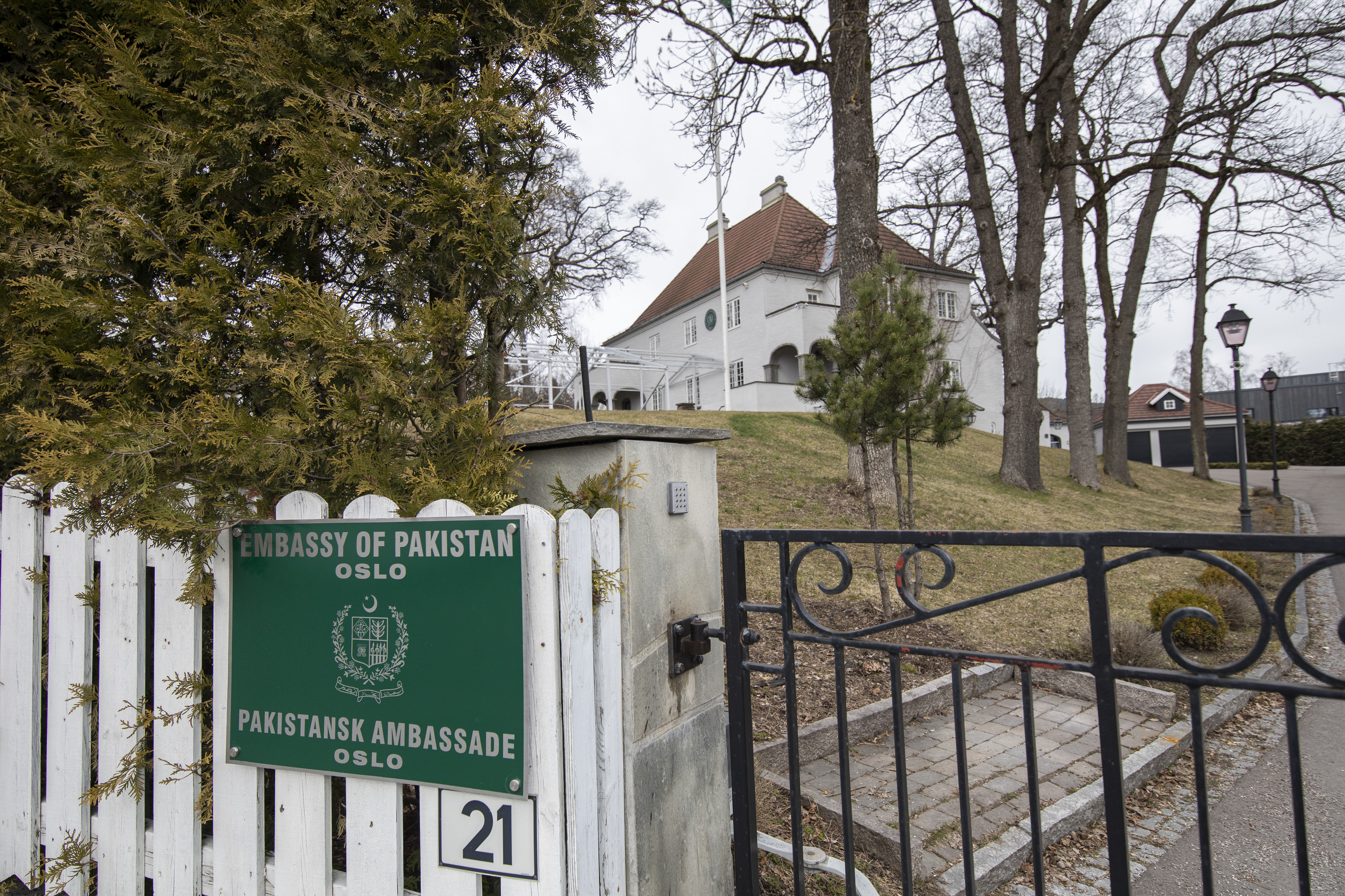 The Pakistani in Oslo, with address Holmenveien 21